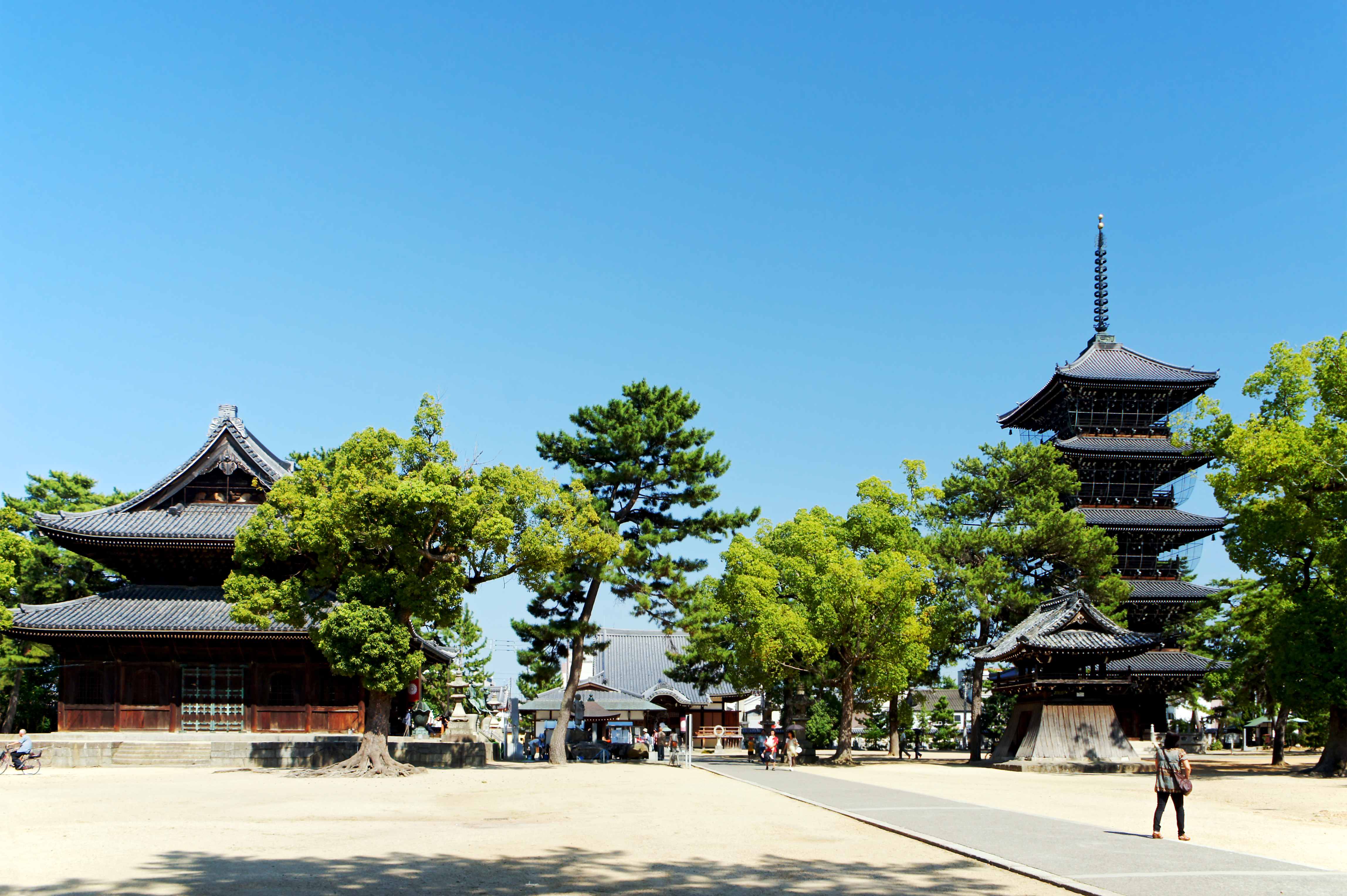 Zentsu-ji in Zentsuji, Kagawa prefecture, Japan. Notice the swastika on the top of the left building